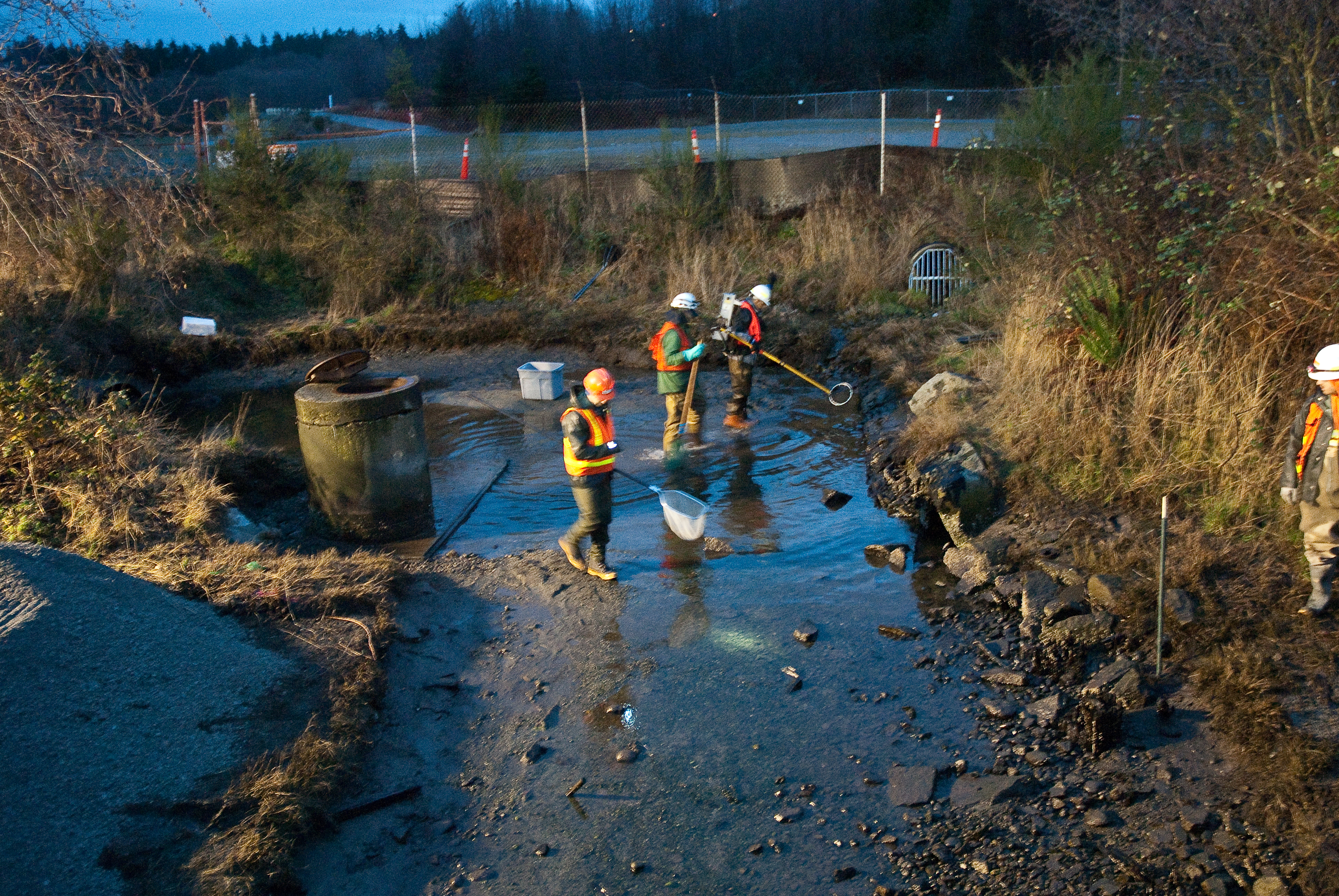 Electrofishing